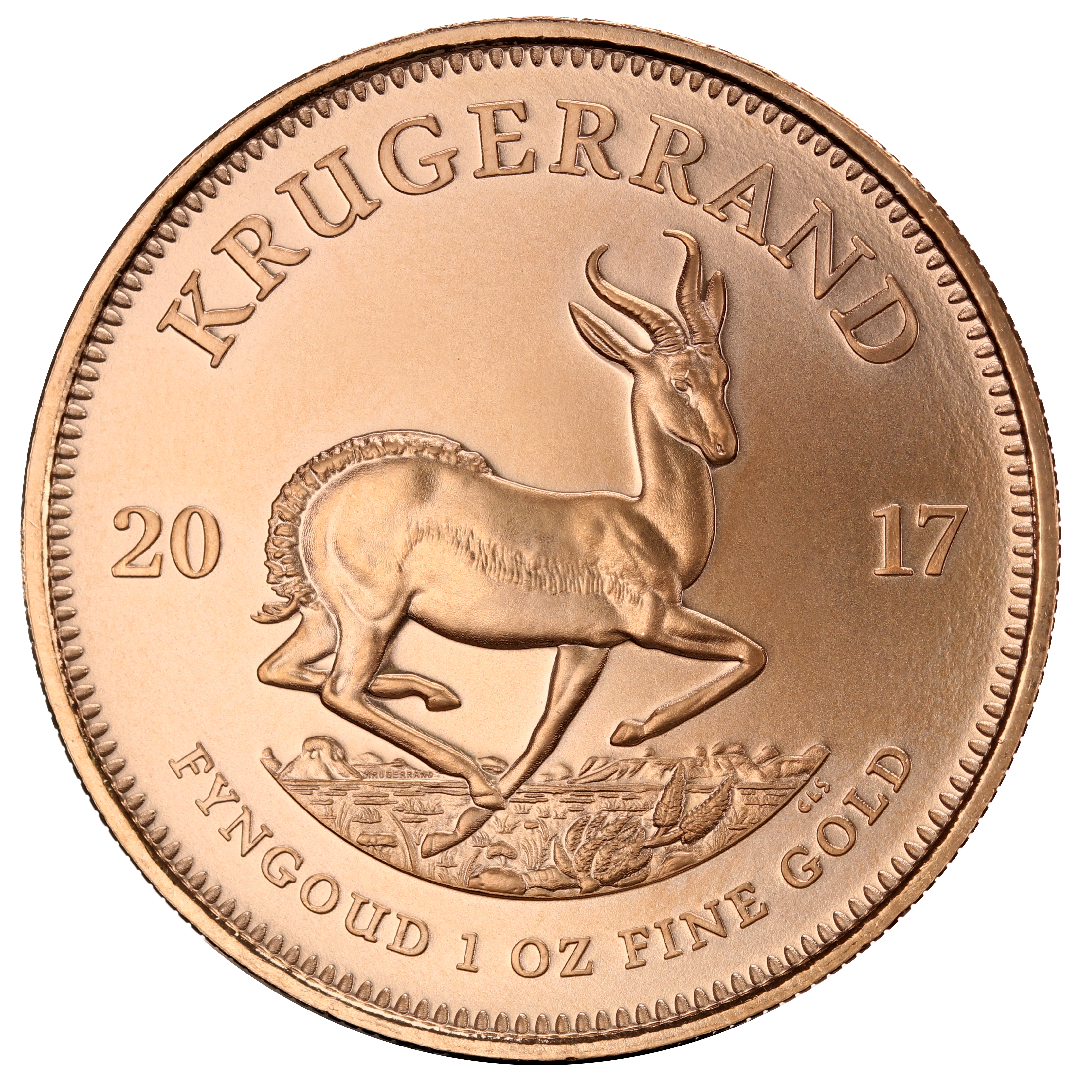 Averse of the 1 oz Krugerrand 2017 gold coin.